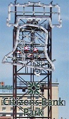 The giant 50-foot-by-35-foot Liberty Bell replica lights up after a Phillies home run or victory. Photo by Wikipedia member NozeNuggets (James Craven). 00:07, 14 August 2006 . . NoseNuggets . . 241×419 (105,034 bytes)